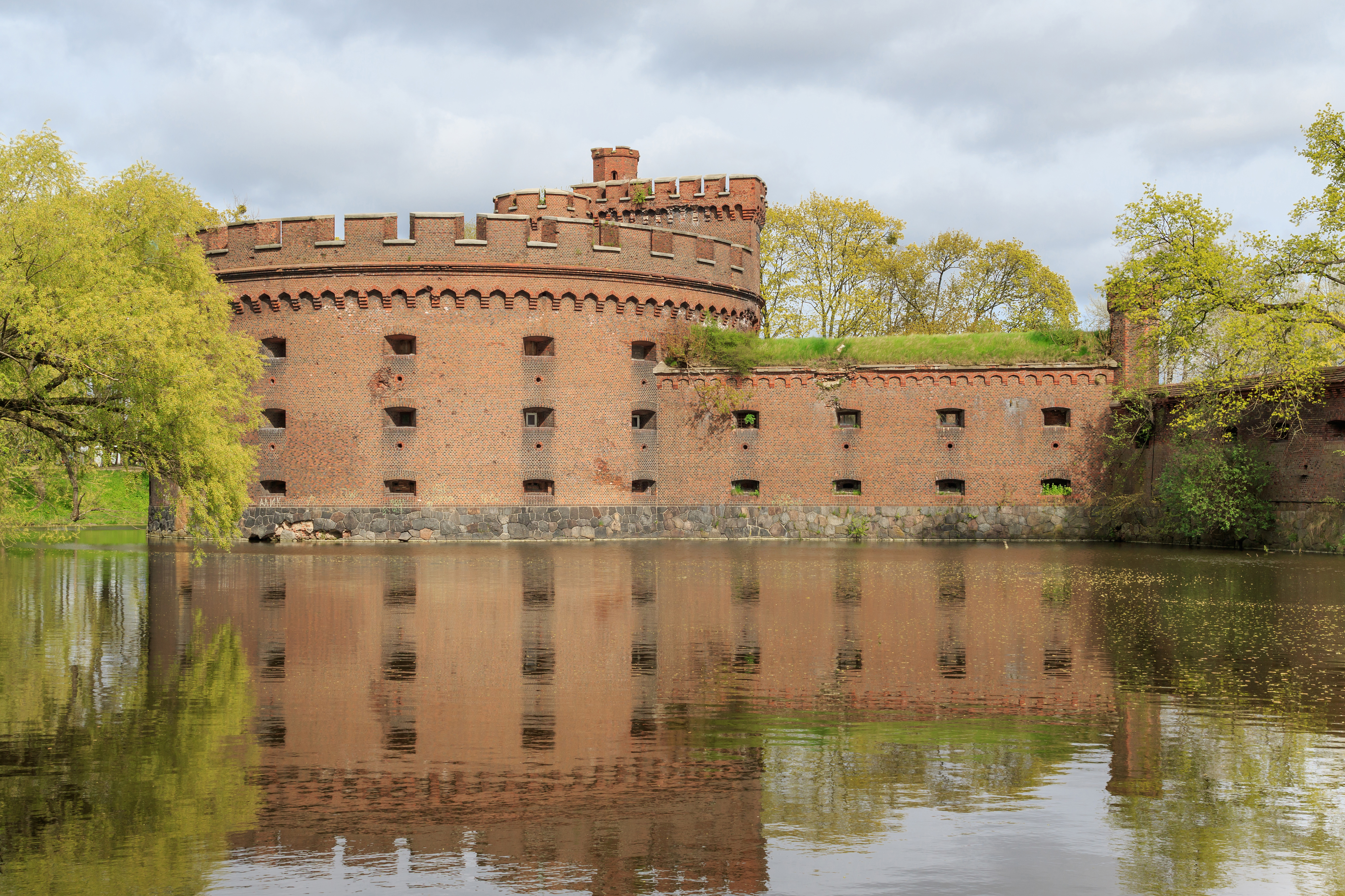 Wrangel Tower in Kaliningrad formerly Königsberg, Kaliningrad Oblast (Russia).